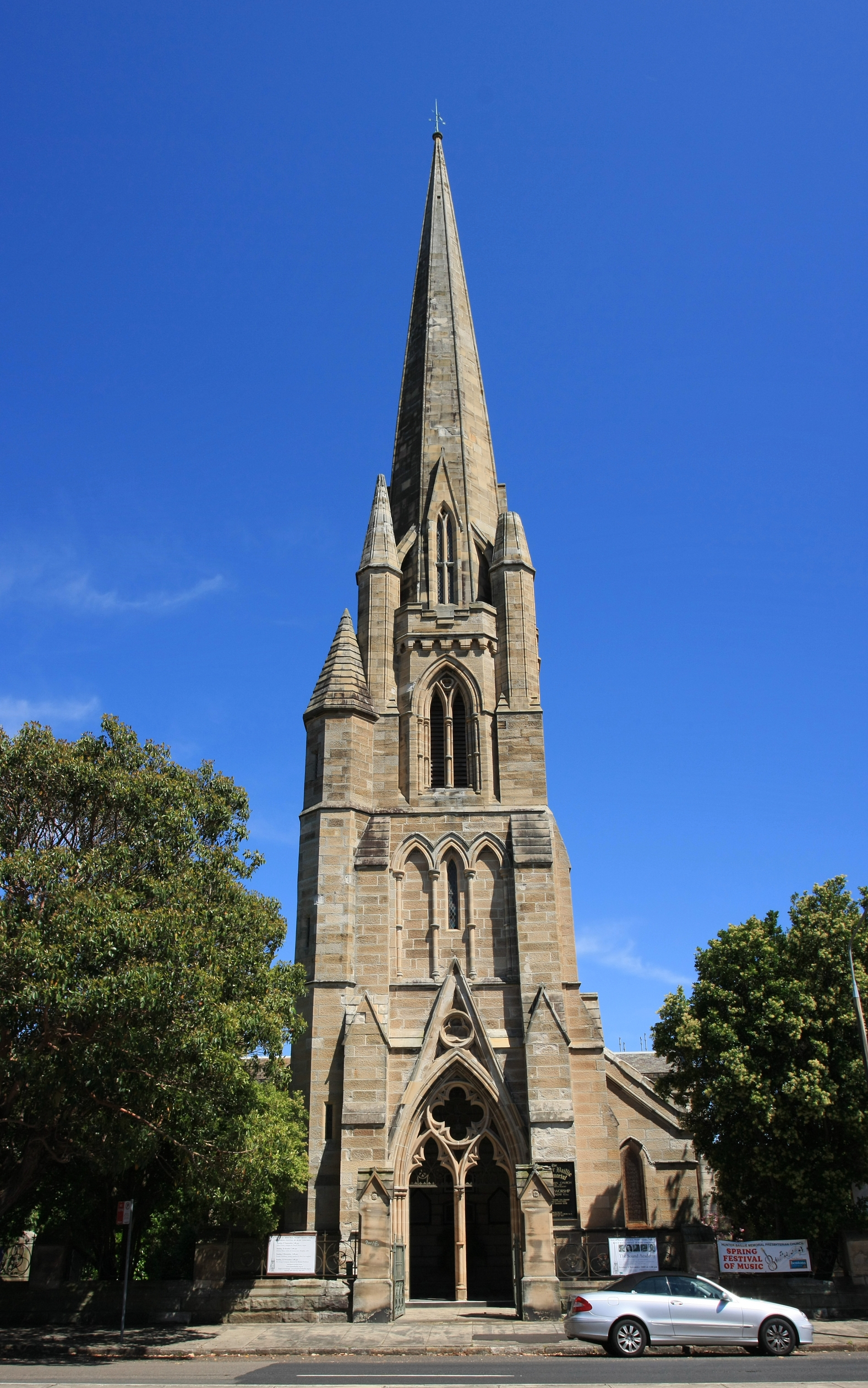 Hunter Bailey Church in Annandale, New South Wales